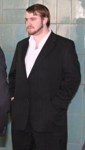 Michael Stout, American videogame designer - 2011